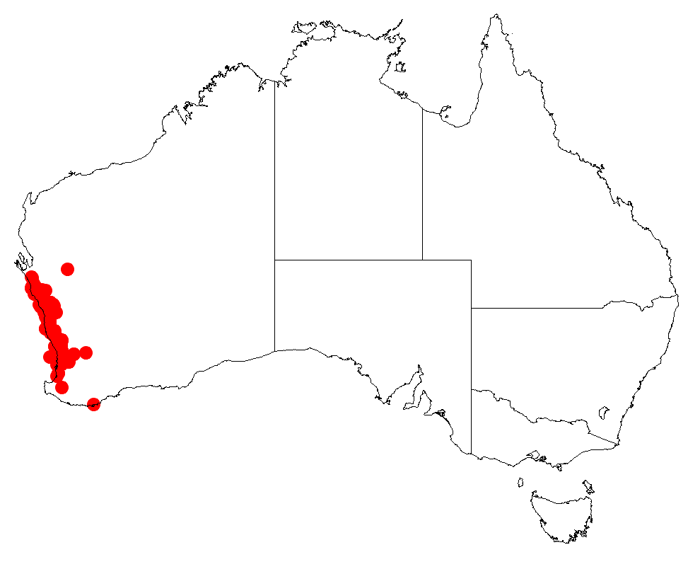 Macarthuria australis Occurrence data downloaded from Australasian Virtual Herbarium on 9 December using